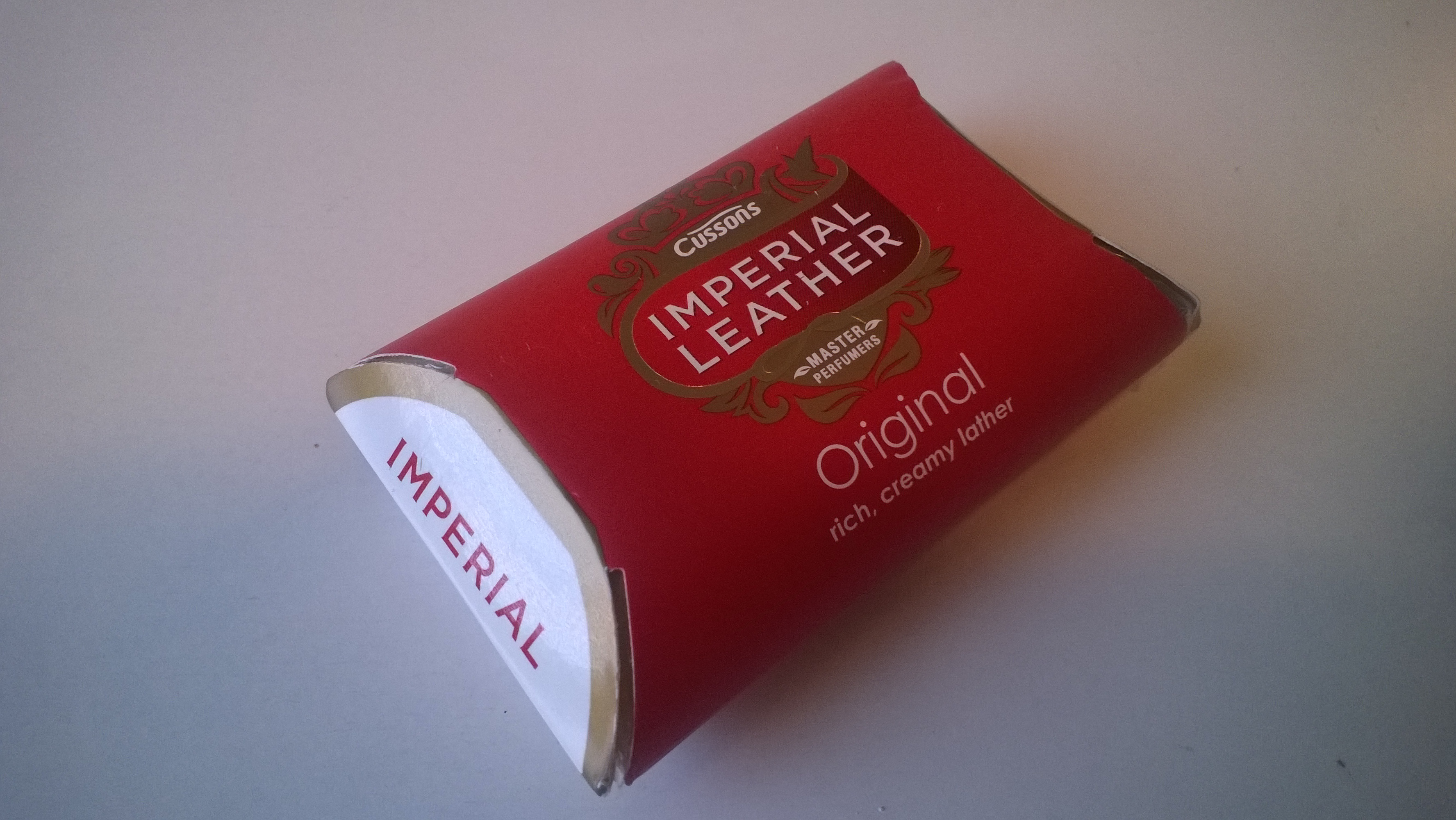 PZ Cussons Imperial Leather soap bar, sales package